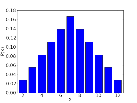 Discrete probability distribution.